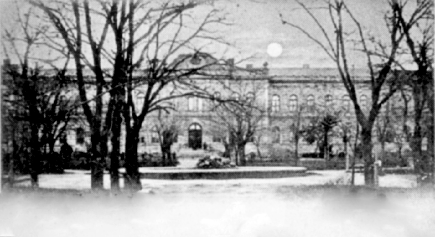 Old picture